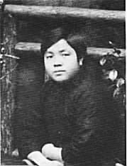 Wang Yizhi, photographed around 1919